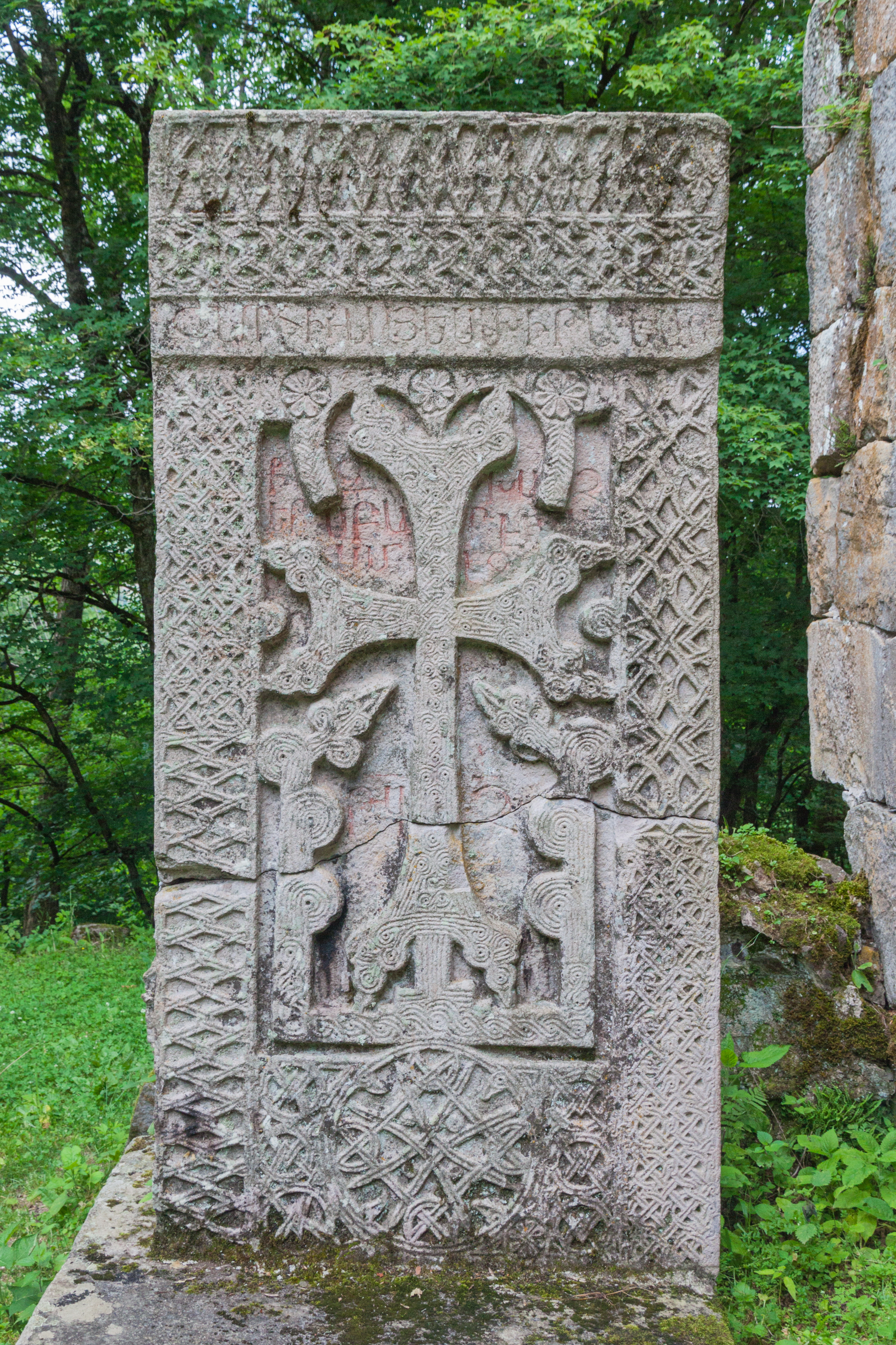 Khatchkar from 1251. Matosavank monastery. Dilijan National Park, Tavush Province, Armenia.